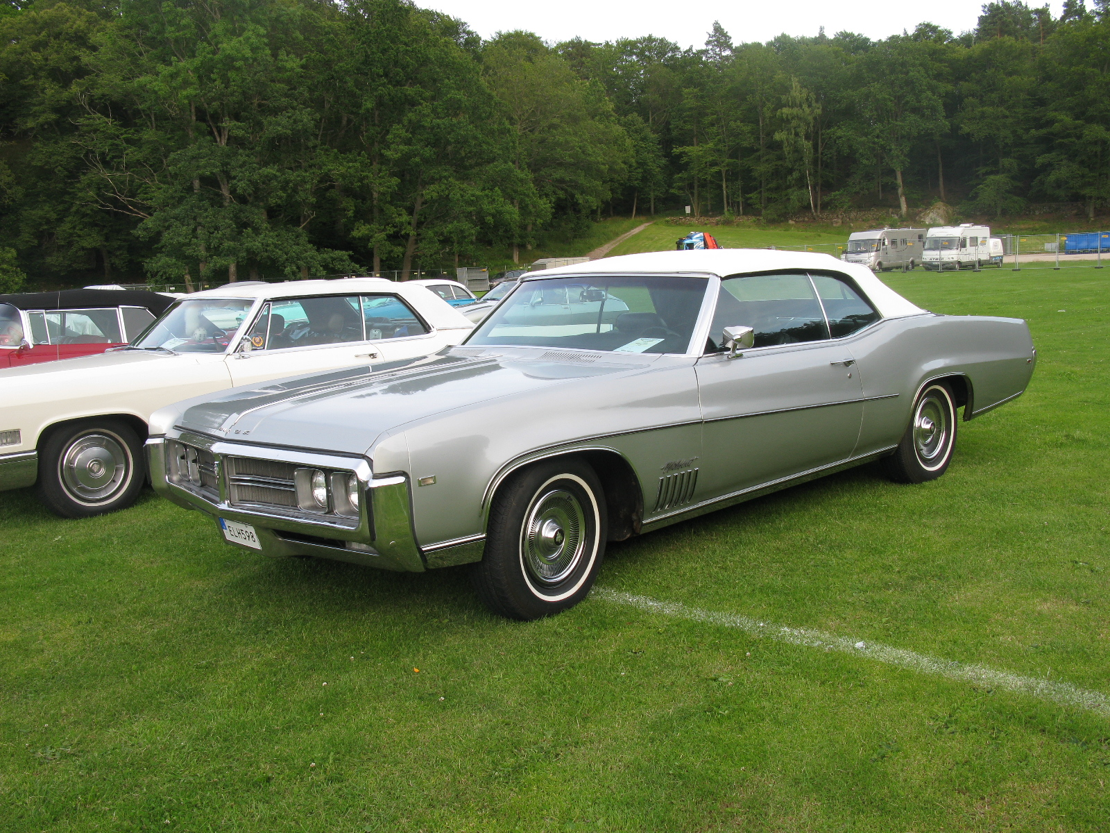 Buick Wildcat Cbriolet1969